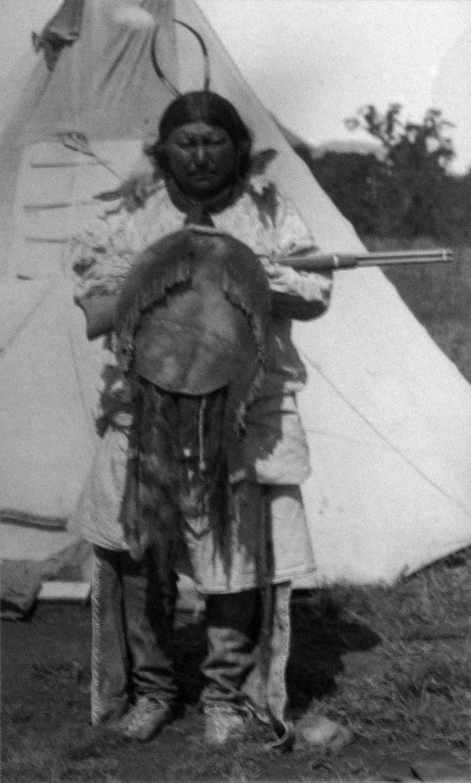 White Horse (Kiowa: Tsen-tainte); Kiowa war chief, d. 1892; holding his war shield